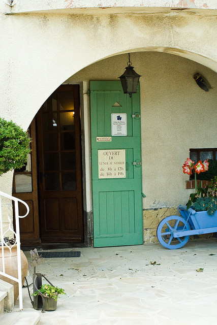 Degustation hall in Gigondas